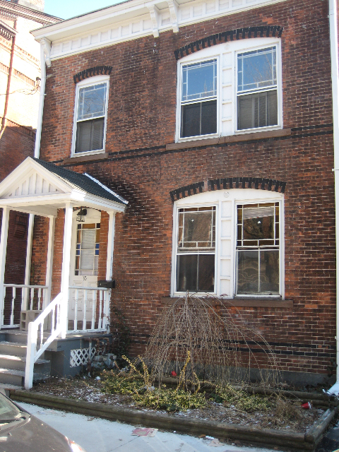 St. Elmo Society, Lynwood Ave.